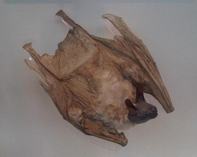 Taxidermied Spectral Bat, False Vampire Bat, Linnaeus's False Vampire Bat or Spectral Vampire Bat (Vampyrum spectrum) at the Natural History Museum in London, England.